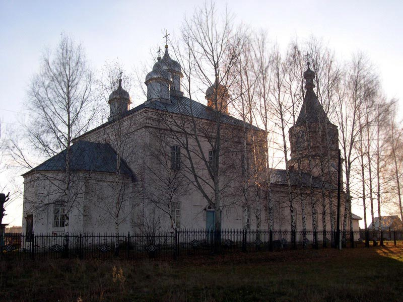 St. Michael church in Vadinsk.